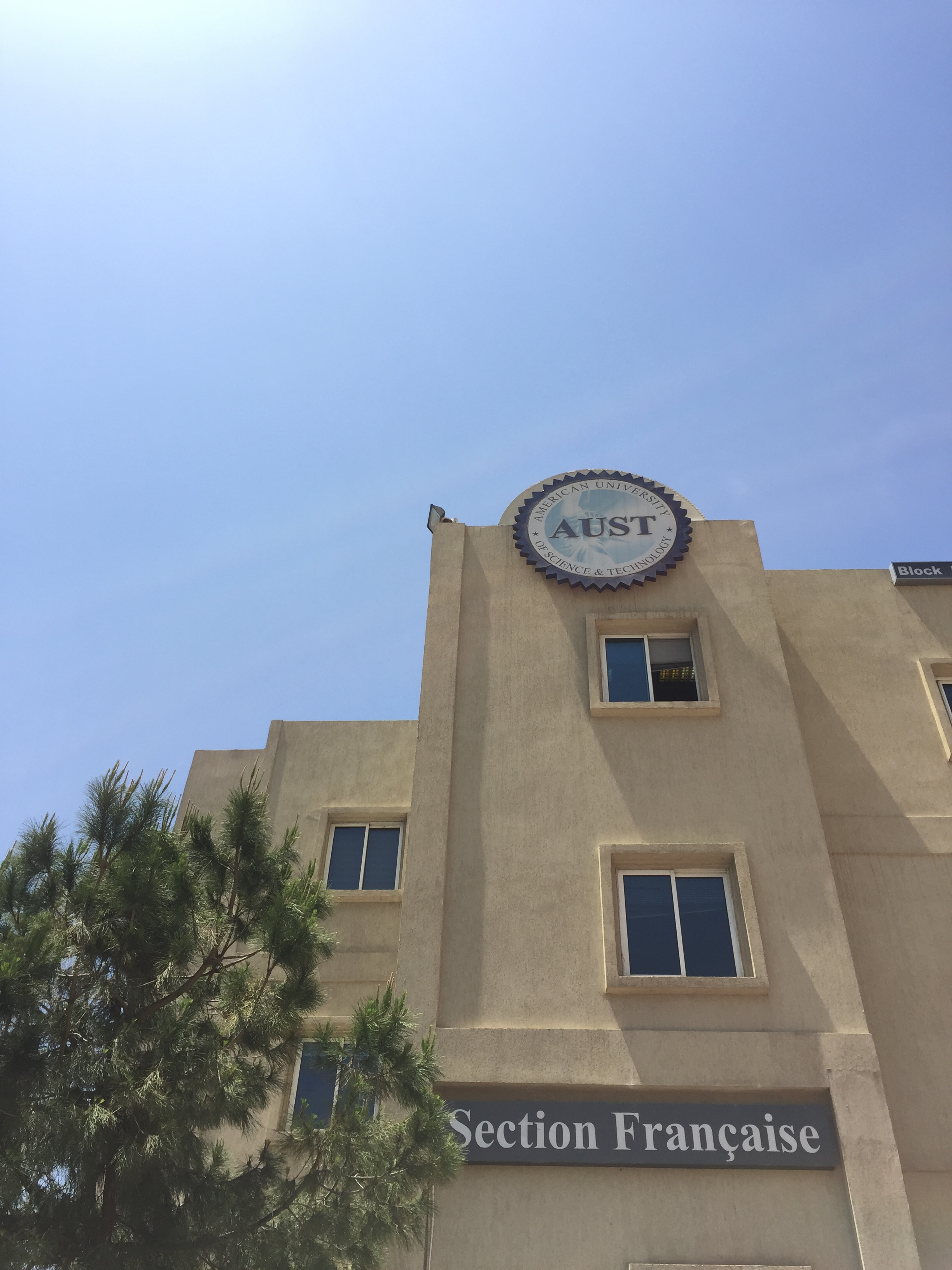 AUST Section Française Achrafieh